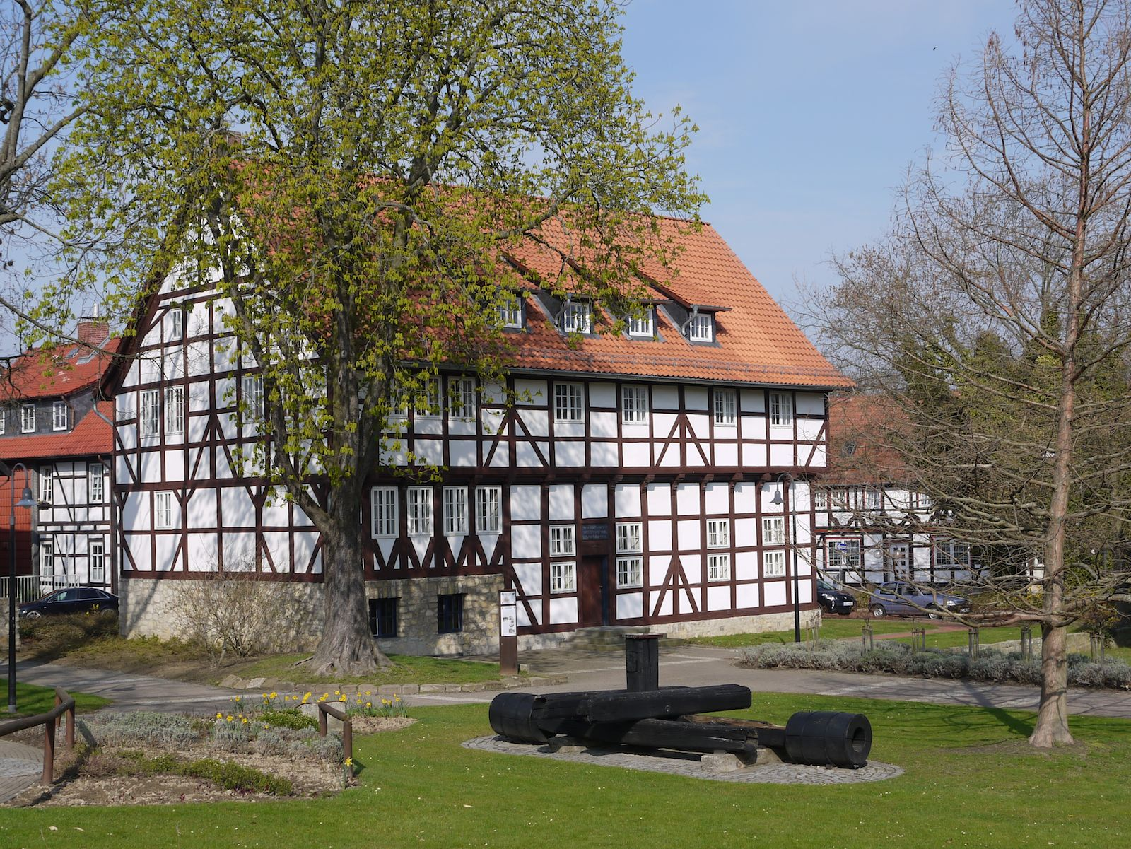 Kniestedter Gutshaus (manor) in Salzgitter-Bad, Lower Saxony, Germany, 1976 transferred to its current location (in the spa garden, today's Rose Garden), in the foreground production tubing from an old salt well